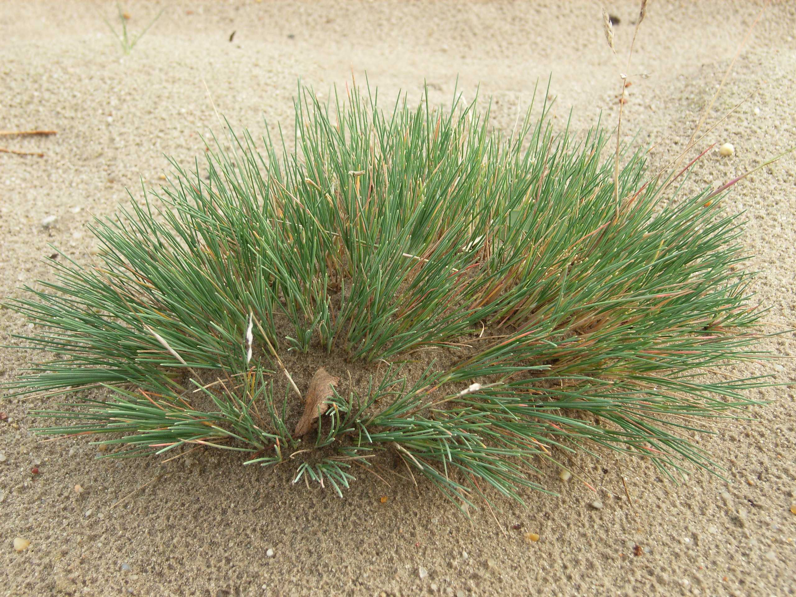 Silbergras (Corynephorus canescens); Horst